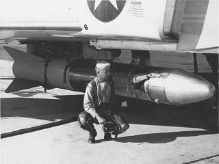 Lt. Al Newman (Fighter Weapons Systems Projects Officer) with PROJECT HI-HOE ("Caleb") sounding rocket mounted on F4H Phantom launch aircraft. China Lake, 26 Jul 1962.